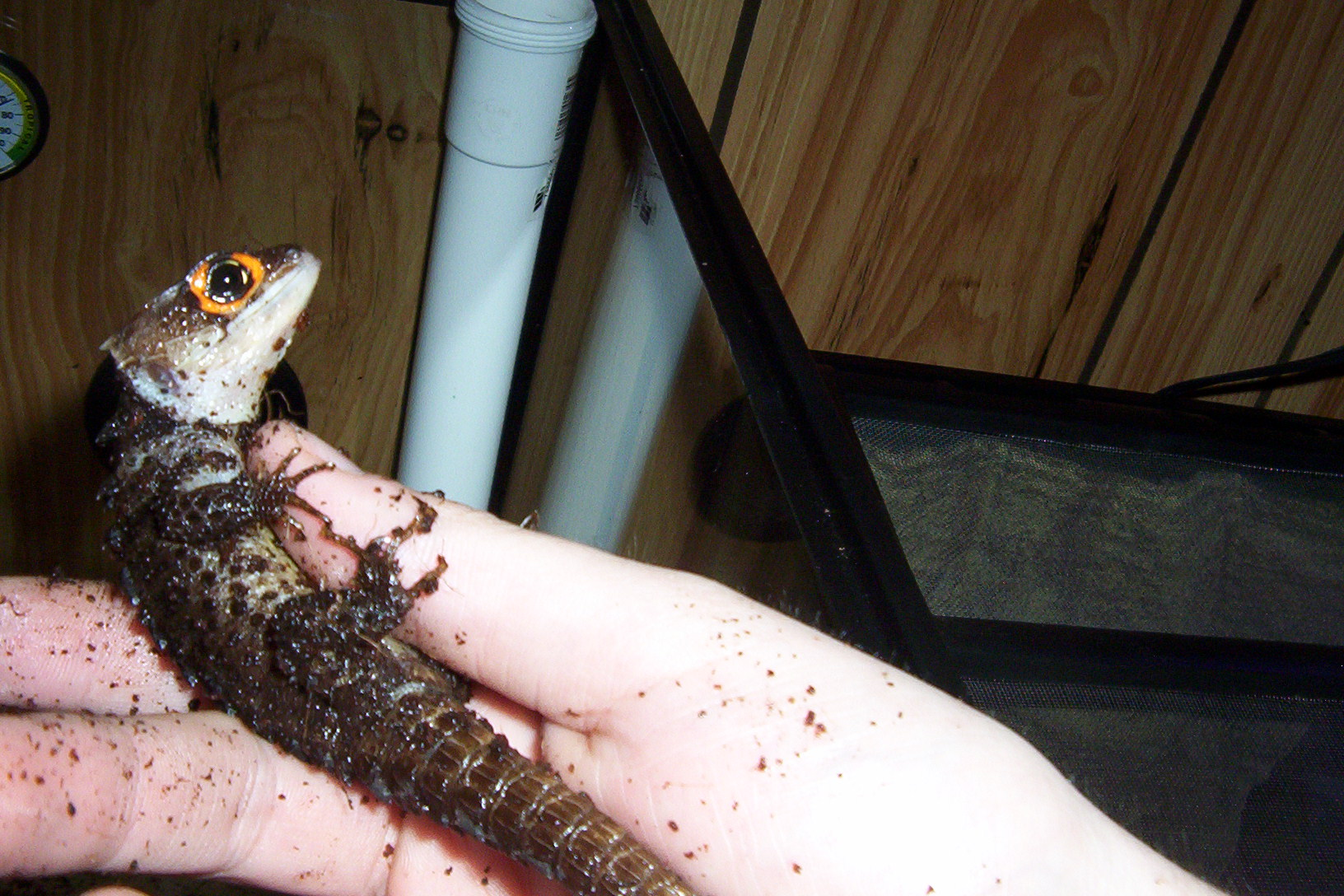 Red Eye Croc Skink, taken by myself: JOE MCGEE category:Tribolonotus gracilis